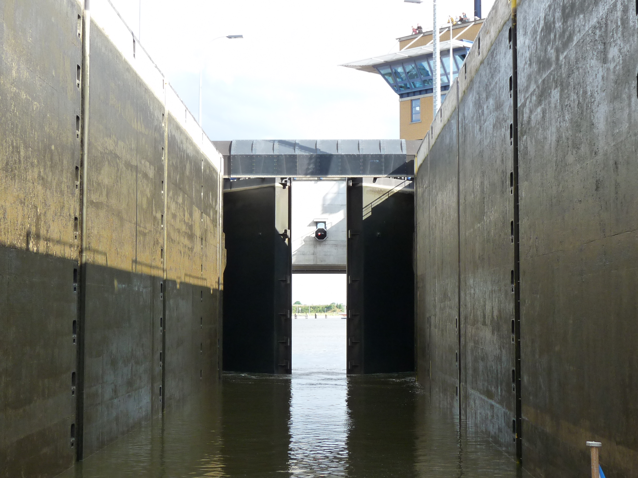 Canal lock named Sparschleuse Rothensee.